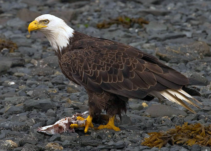 Bald Eagle with fish from Kodiak, Alaska